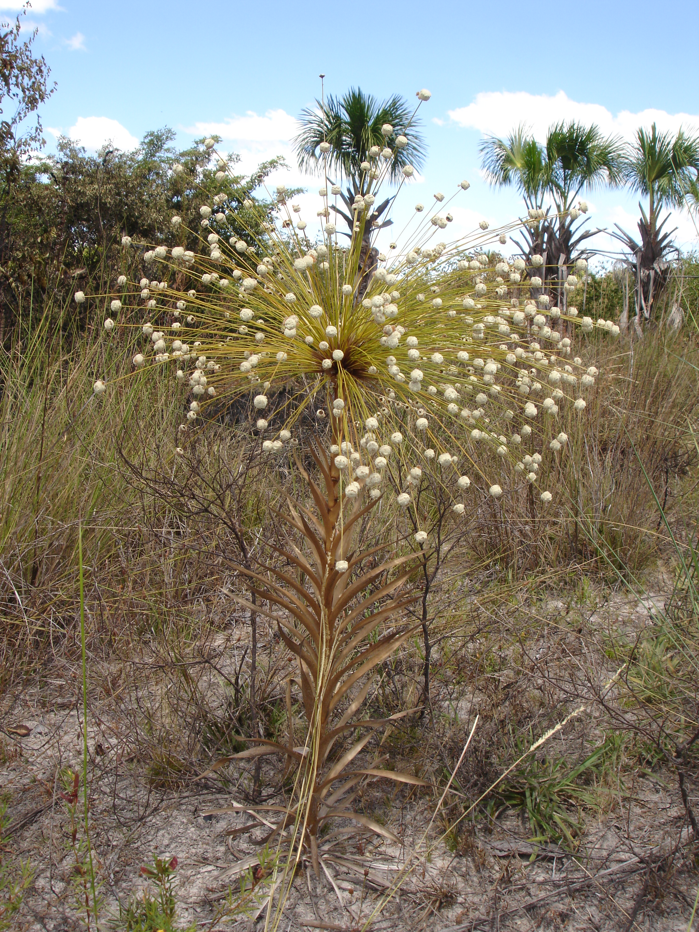 Flower typical of central Brazil with some buriti palms in the background. Photo taken at Jalapão. Probably an Eriocaulaceae.